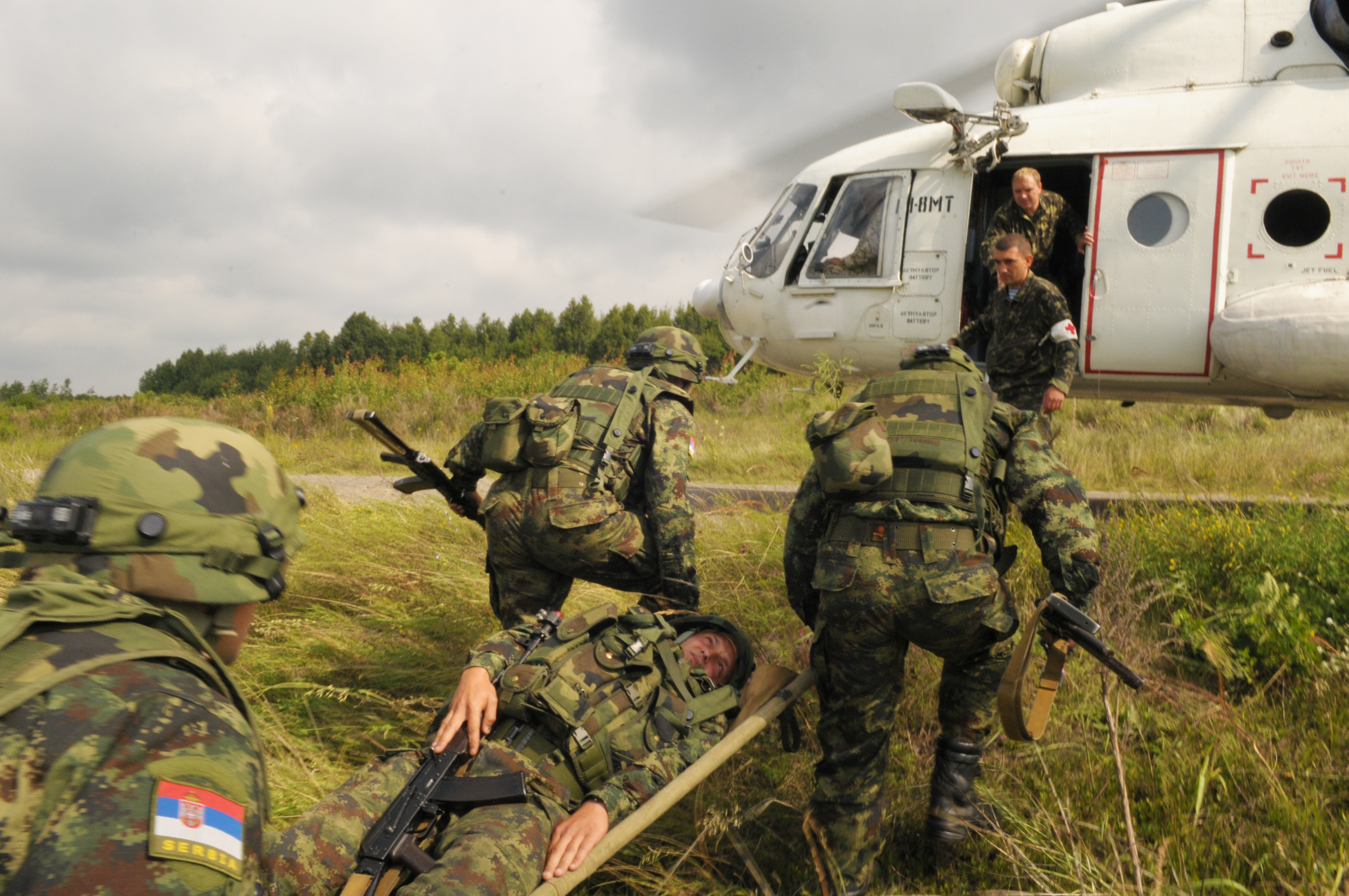 Yavoriv, Ukraine (July 28, 2011)-- Serian and Ukrainian Soldiers conduct medical evacuation drills together during Exercise Rapid Trident 2011. Rapid Trident is a multi-national airborne operation and field training exercise (FTX) in support of Ukraine’s Annual Program to achieve interoperability with NATO. (U.S. Army photo by Staff Sgt. Brendan Stephens/Released)